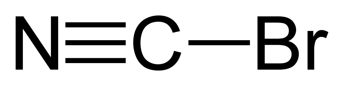 Structural formula of cyanogen bromide, NCBr